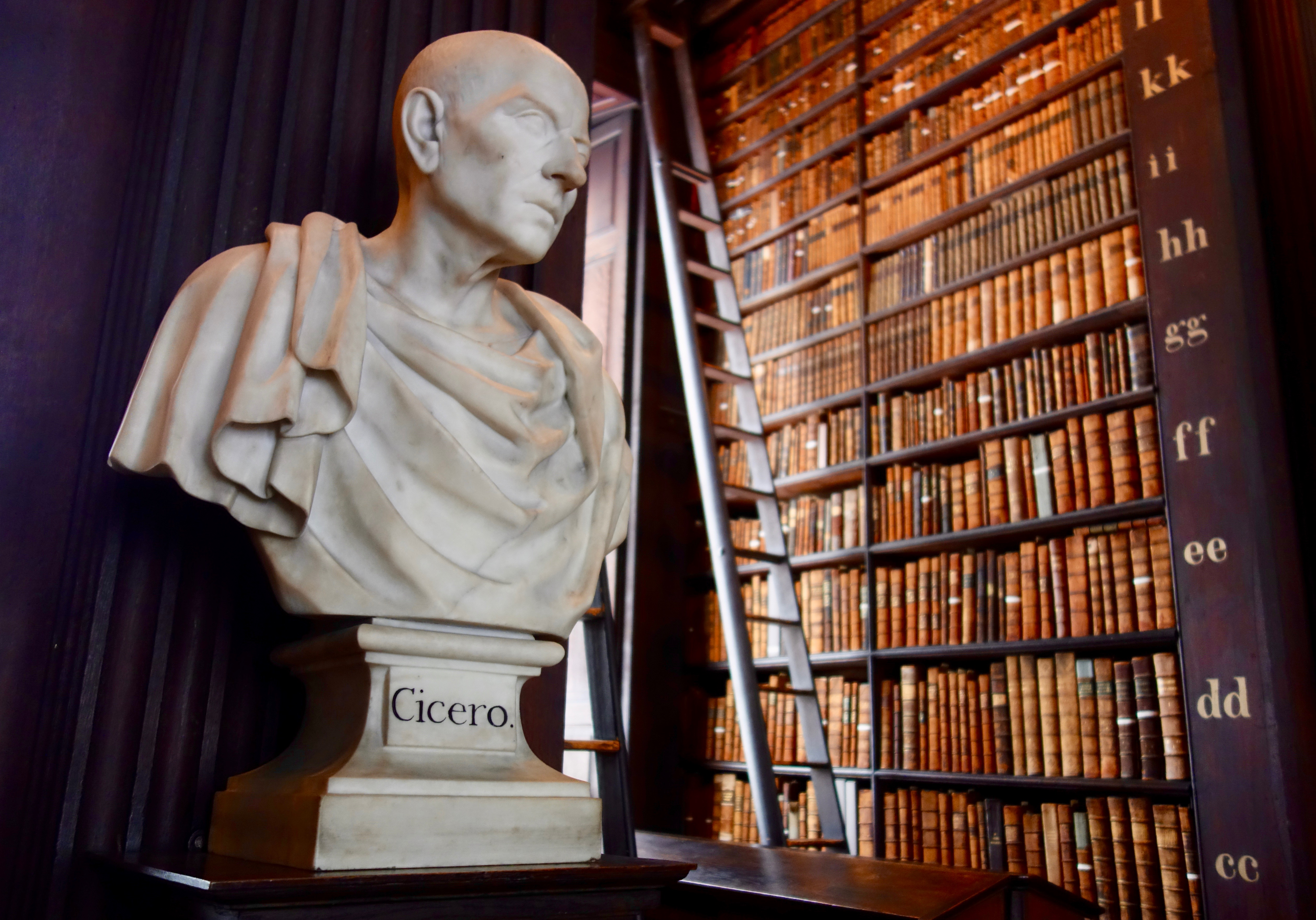 Long Room, Trinity College Dublin